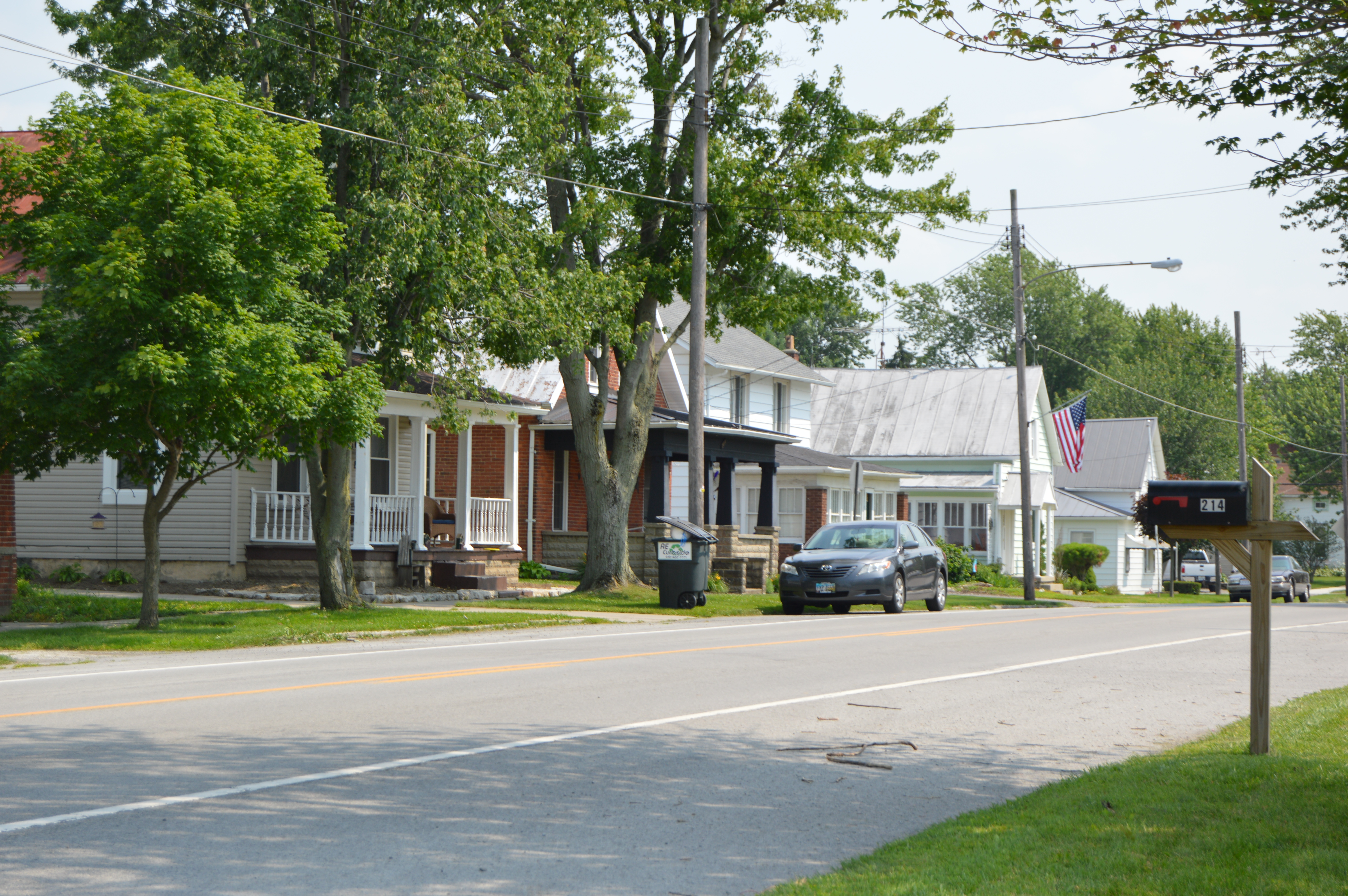 Houses on the eastern side of Main Street (State Route 235) south of the Washington Street intersection in Mount Cory, Ohio, United States.